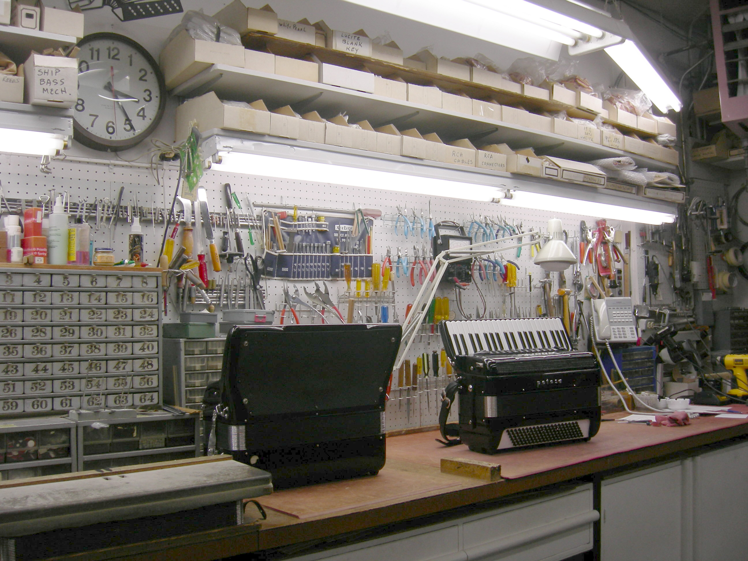 Workshop of Petosa Accordions, Seattle, Washington, founded in 1922 and in its present location (its second, both in Seattle's Wallingford neighborhood) since 1955. This workshop is probably the last manufacturing accordions in the United States; they also do repairs and fine-tune the accordions built at the company's small factory in Castelfidardo, Italy.